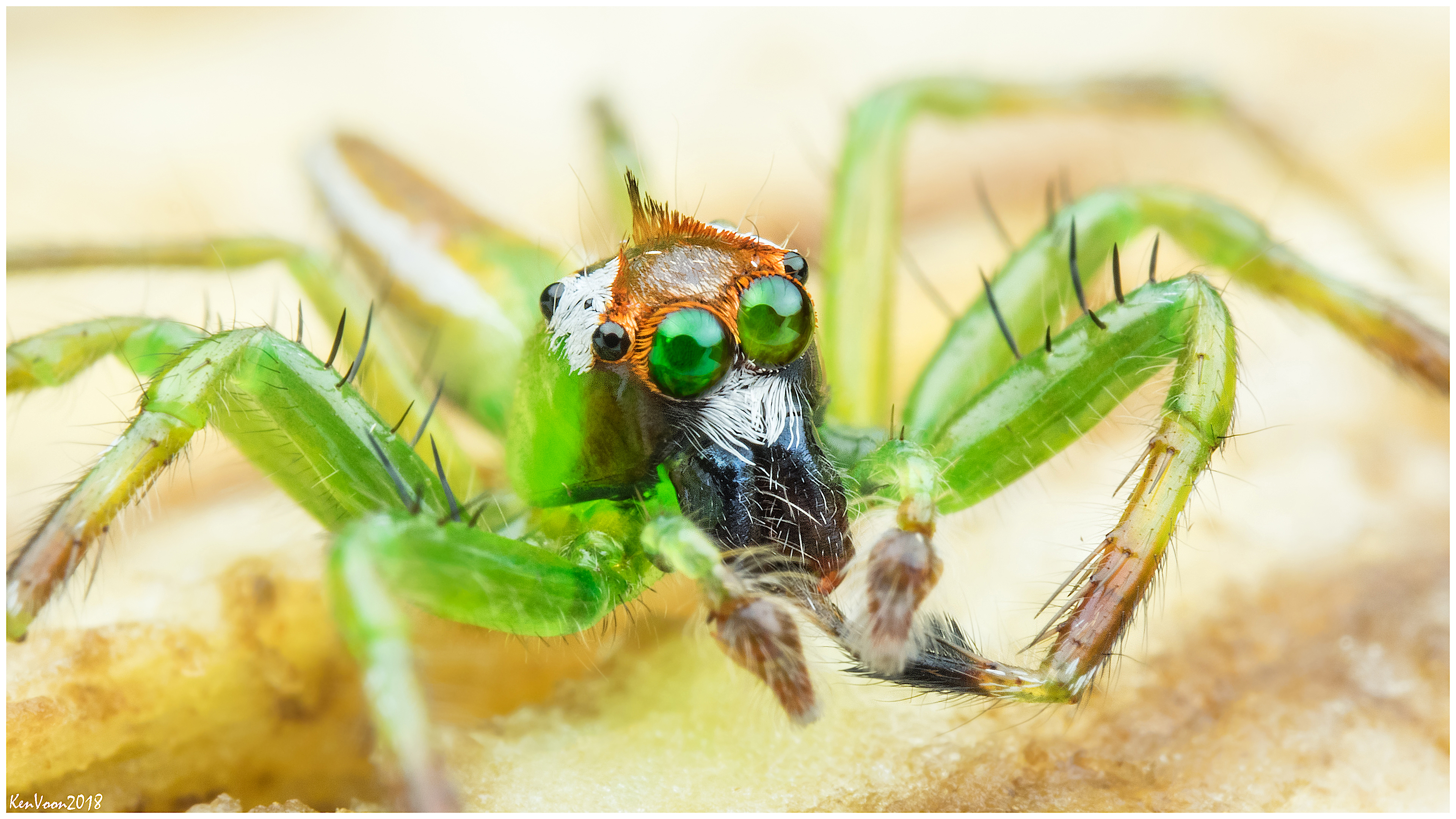 He likes to eat banana